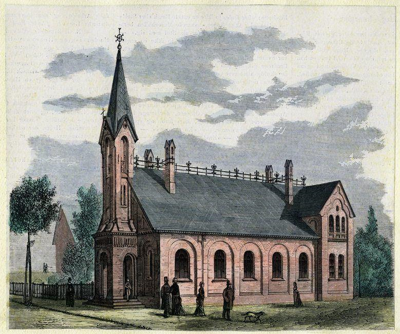 Martin's Vhurch (Martinskirken) in Frederiksberg, Copenhagen, Denmark